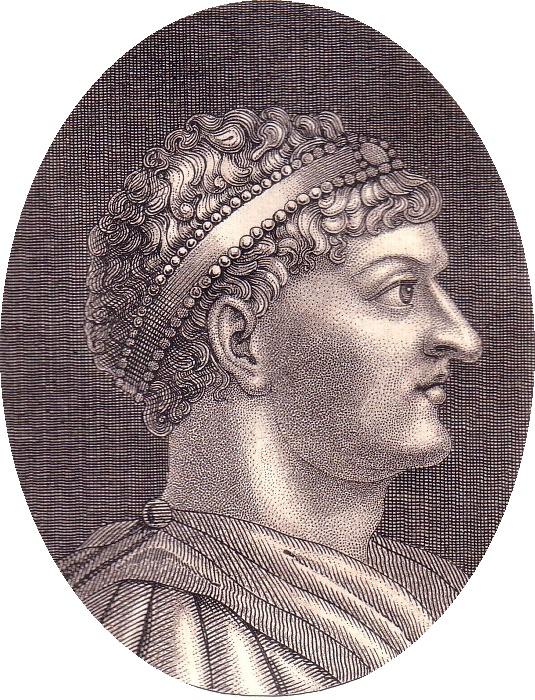 Portrait of Honorius, son of Theodosius I